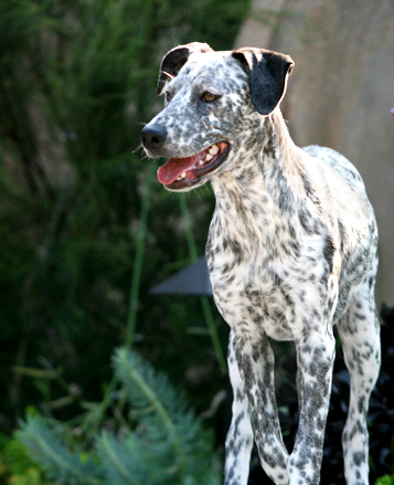 A mix between a pointer and greyhound.